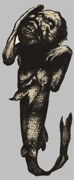 Fiji mermaid Year: 1842. Con artist: P.T. Barnum. Originally published in: The New York Herald. Now appears in: Monsters of the Sea by Richard Ellis Copyright expired due to age of photo